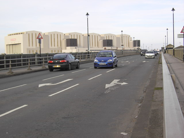 Walney Bridge. The bridge which connects Walney Island to Barrow in Furness.